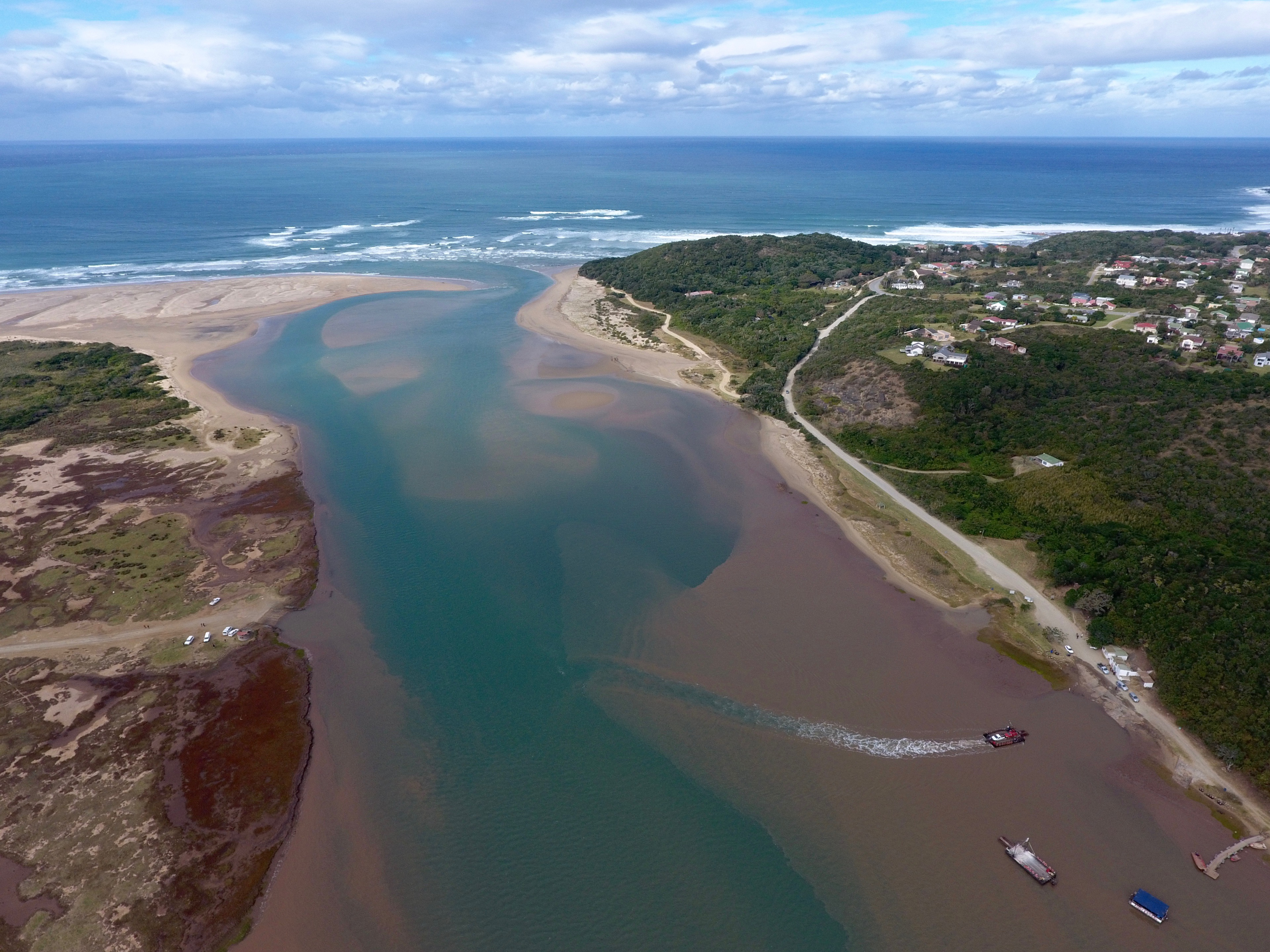 Picture take with Phantom 4 of us crossing the Great Kei River on the ferry